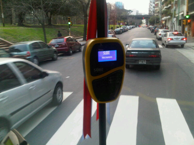 Bus interior with unknown chassis in Buenos Aires or Buenos Aires Province, Argentina. Colectivo.